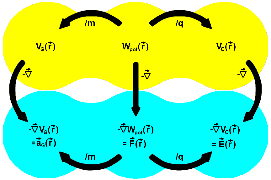 Conservative potential and gradient fields Scalar (potential) fields (yellow): VG - gravitational potential; Wpot - potential energy; VC - Coulomb potential Vector (gradient) fields (cyan): aG - gravitational acceleration; F - force; E - electric field strength